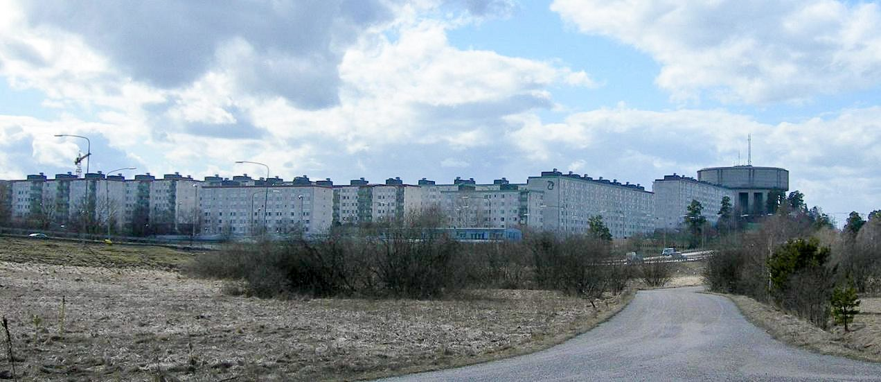 Tensta, Stockholm, Sweden. The early spring 2006.